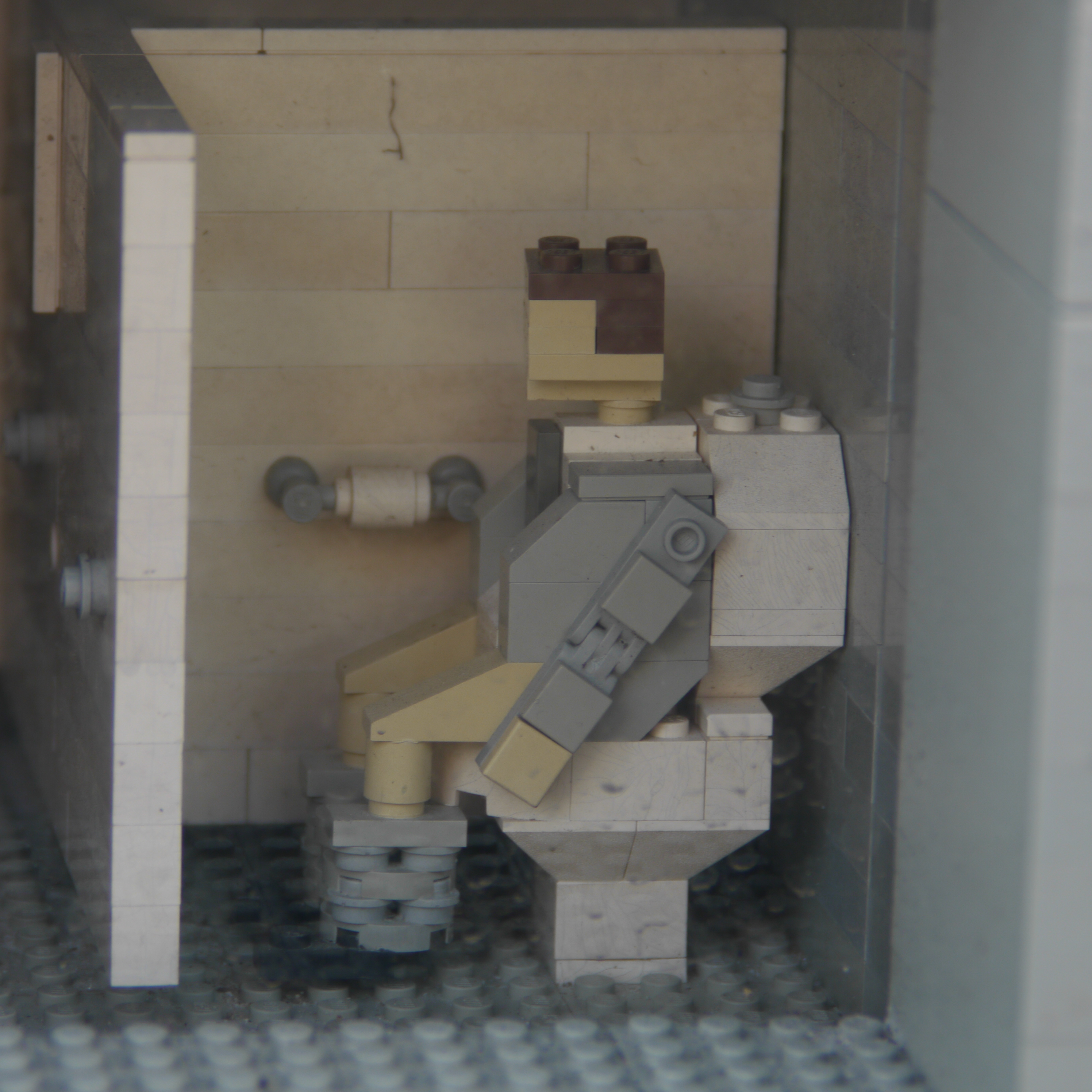 Miniland typically features several visual gags, such as this toilet patron in the Grand Central Station model at Legoland California.